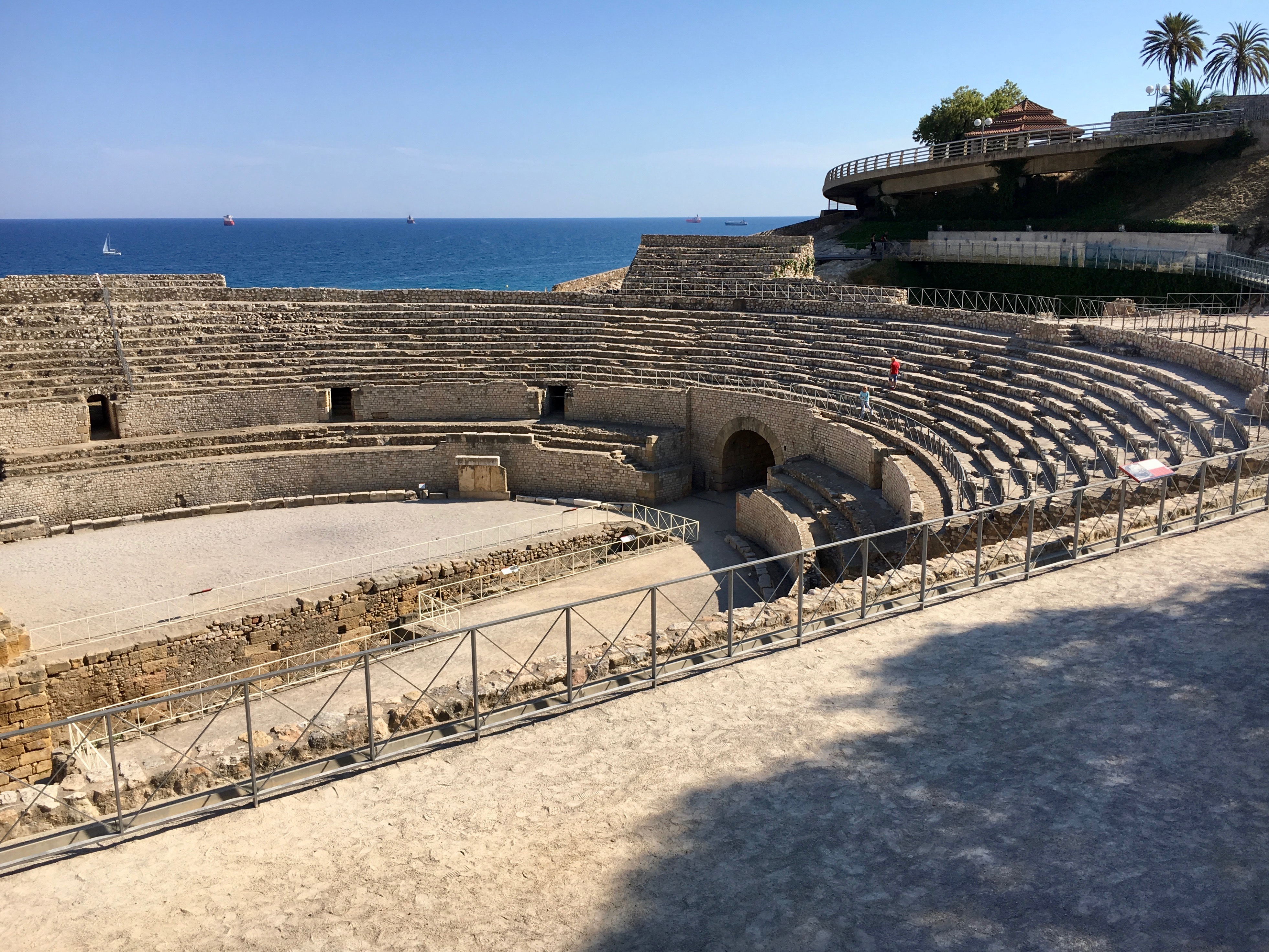 Roman amphiteatre, Tarragona